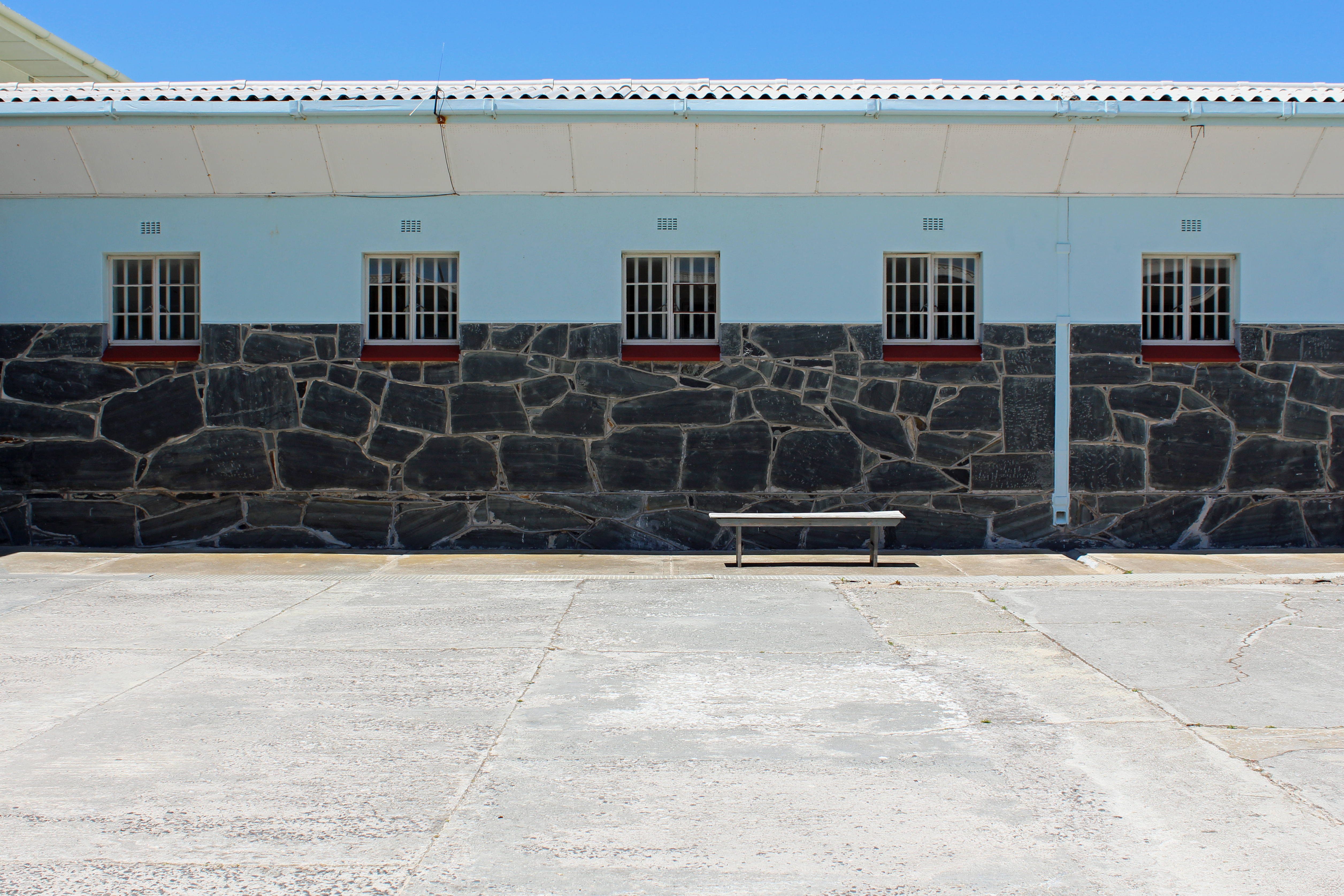 Single cells facing the B-Section courtyard of Robben Island Maximum Security Prison. Nelson Mandela's cell is the fourth cell from the left.